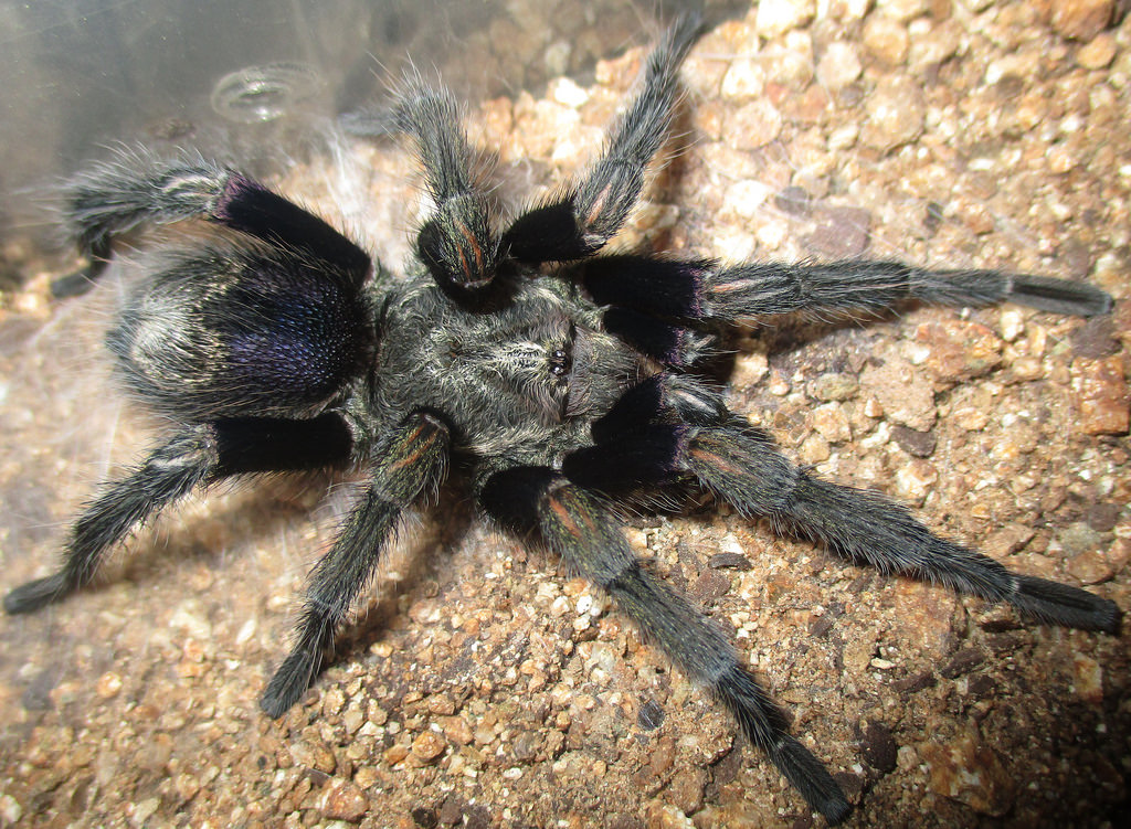 tarantula